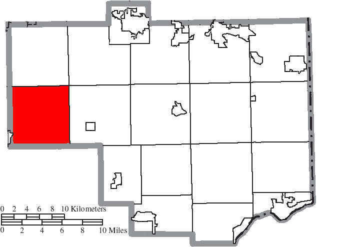 Map of the municipal and township boundaries of Columbiana County, Ohio, United States, as of the 2000 census, with the location of West Township highlighted. Township borders are shown only in unincorporated areas in order to differentiate incorporated and unincorporated areas more clearly.